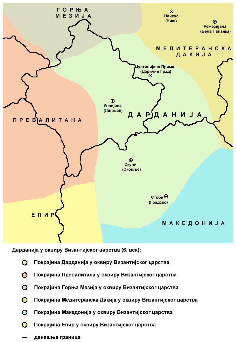 Borders of the Byzantine province of Dardania (6th century) compared to modern borders.